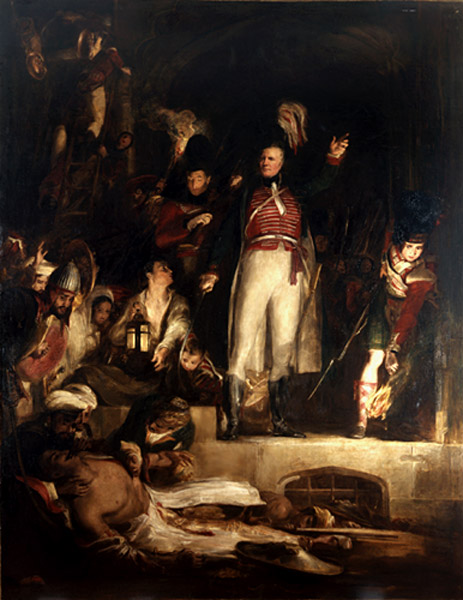 Death of Tippoo Sultan